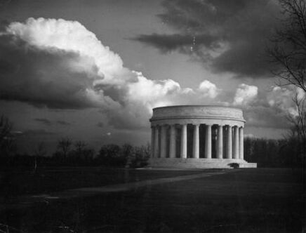 Image of the Harding Memorial, Marion Ohio, ca. 1927. Image courtesy of the Marion County Historical Society, Marion Ohio